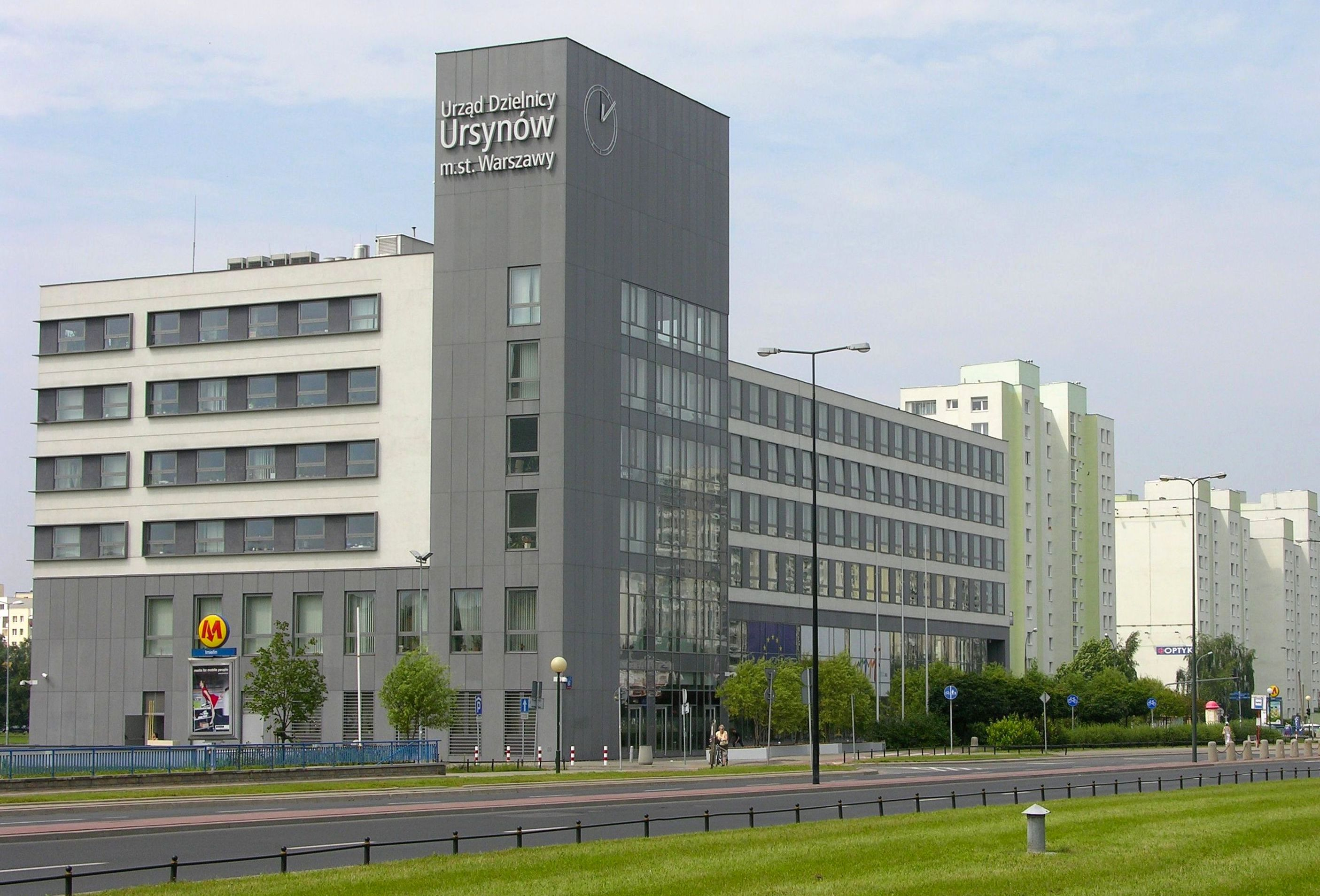 Seat of Ursynów District authorities in Warsaw